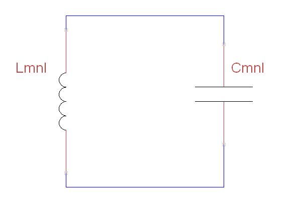 LC model of resonant cavity